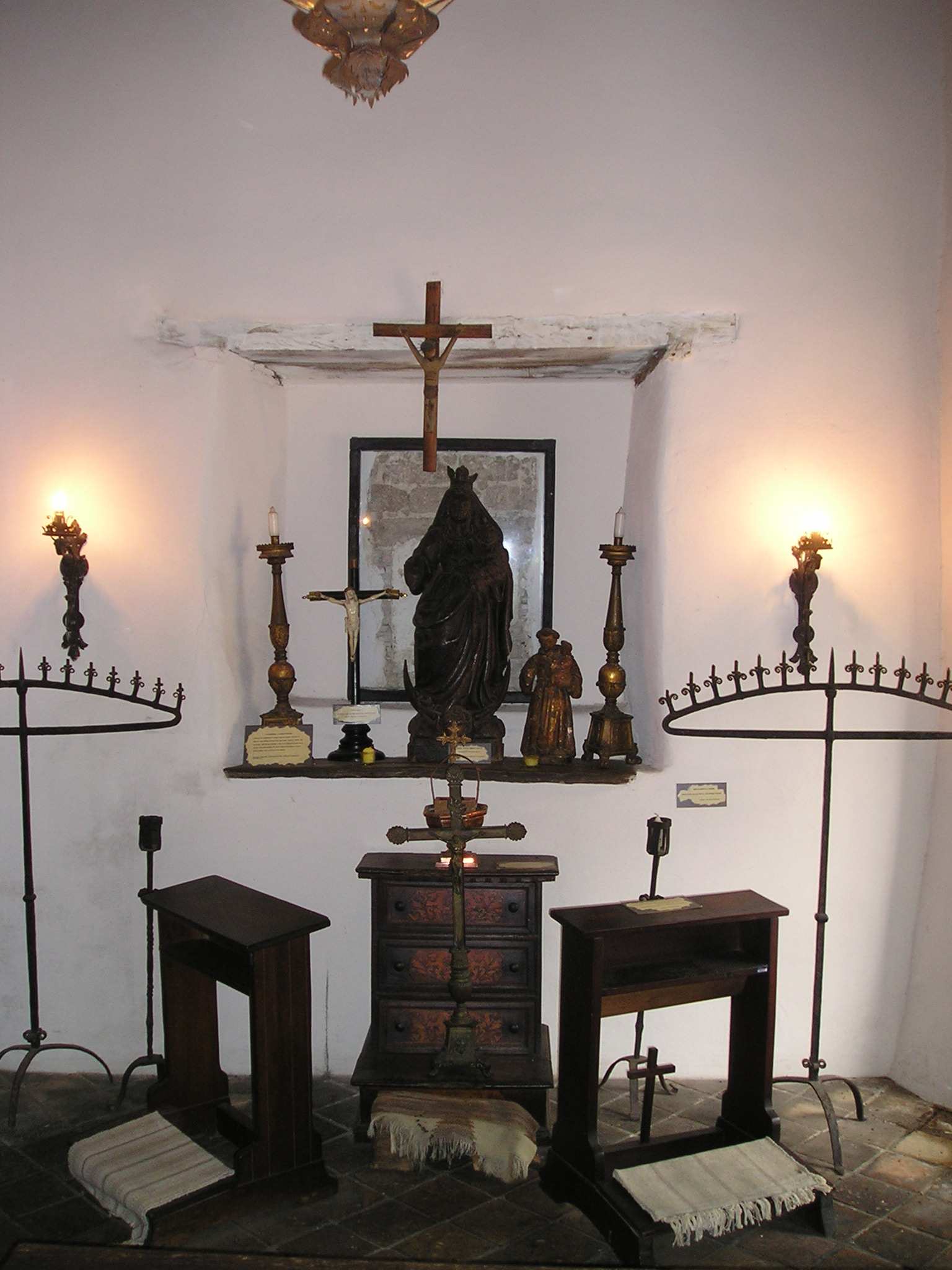 Inside of Spanish Govenors Palace in San Antonio, Texas. Built in 1749, the adobe structure formerly served as the residence and headquarters for the captain of the Spanish presidio.